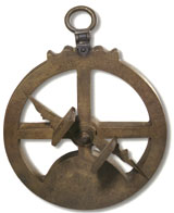 Mariner's astrolabe, made in Portugal